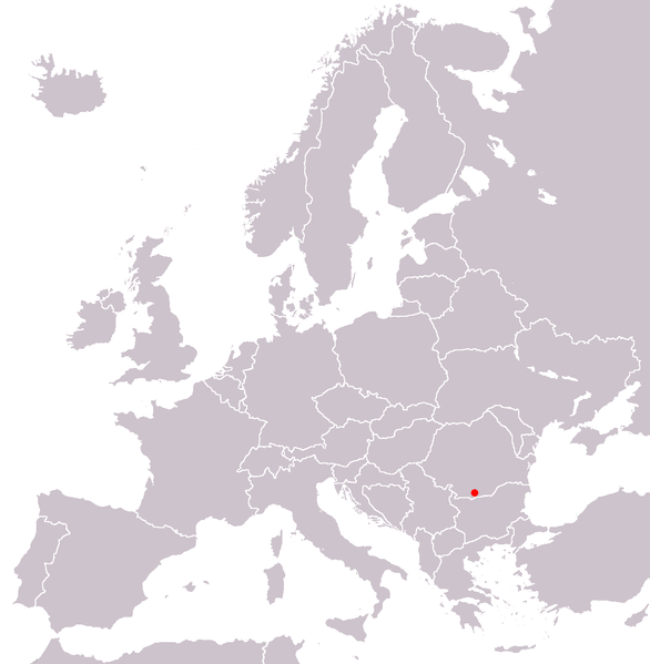 Location of Corabia (Romania) in Europe.